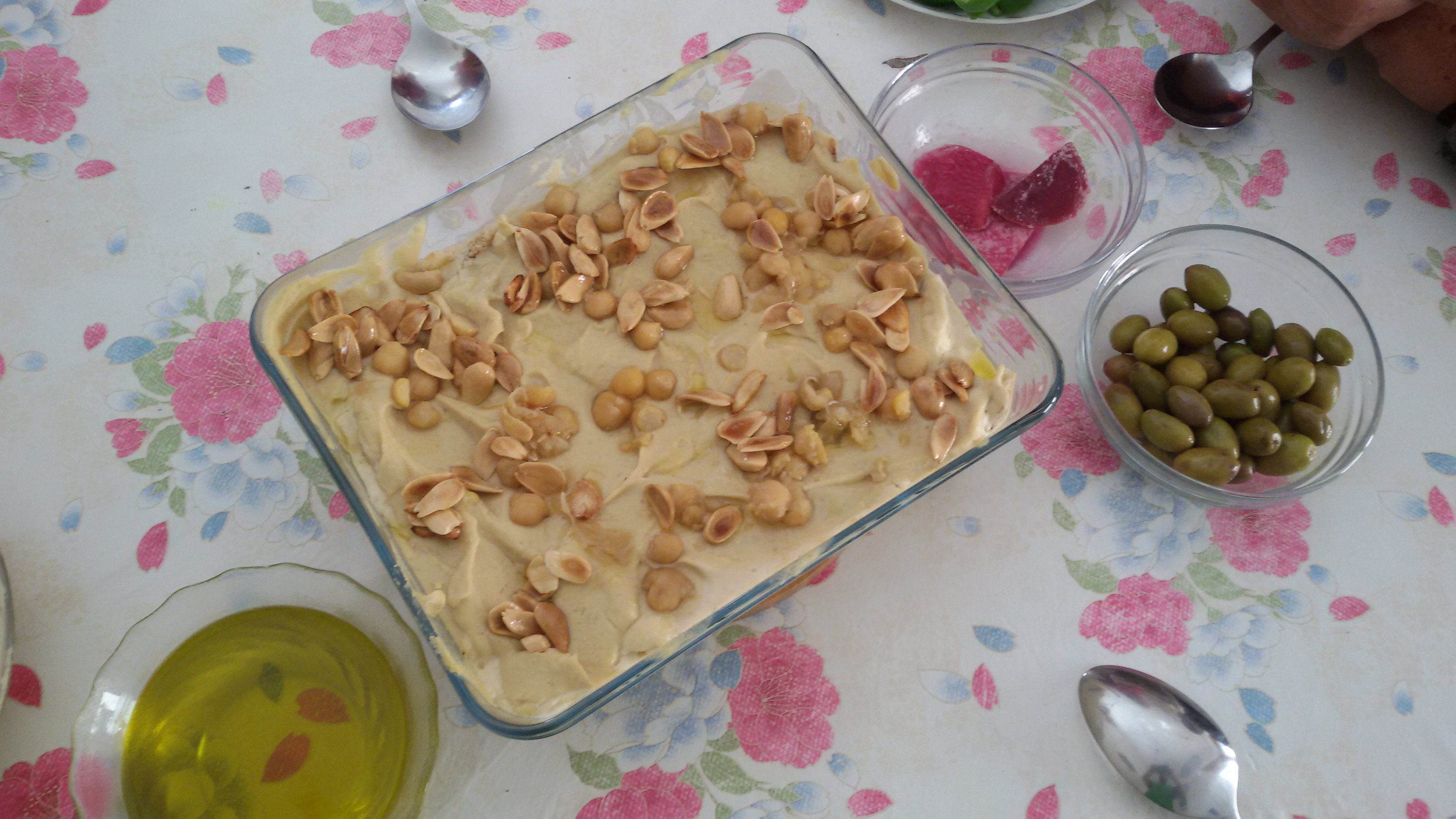 Palestinian recipe Hummus Fatteh dish, people would eat from the same dish (using spoons); the dish is garnished with whole chick peas and fried almonds, beside it there are green olives, red beets and olive oil